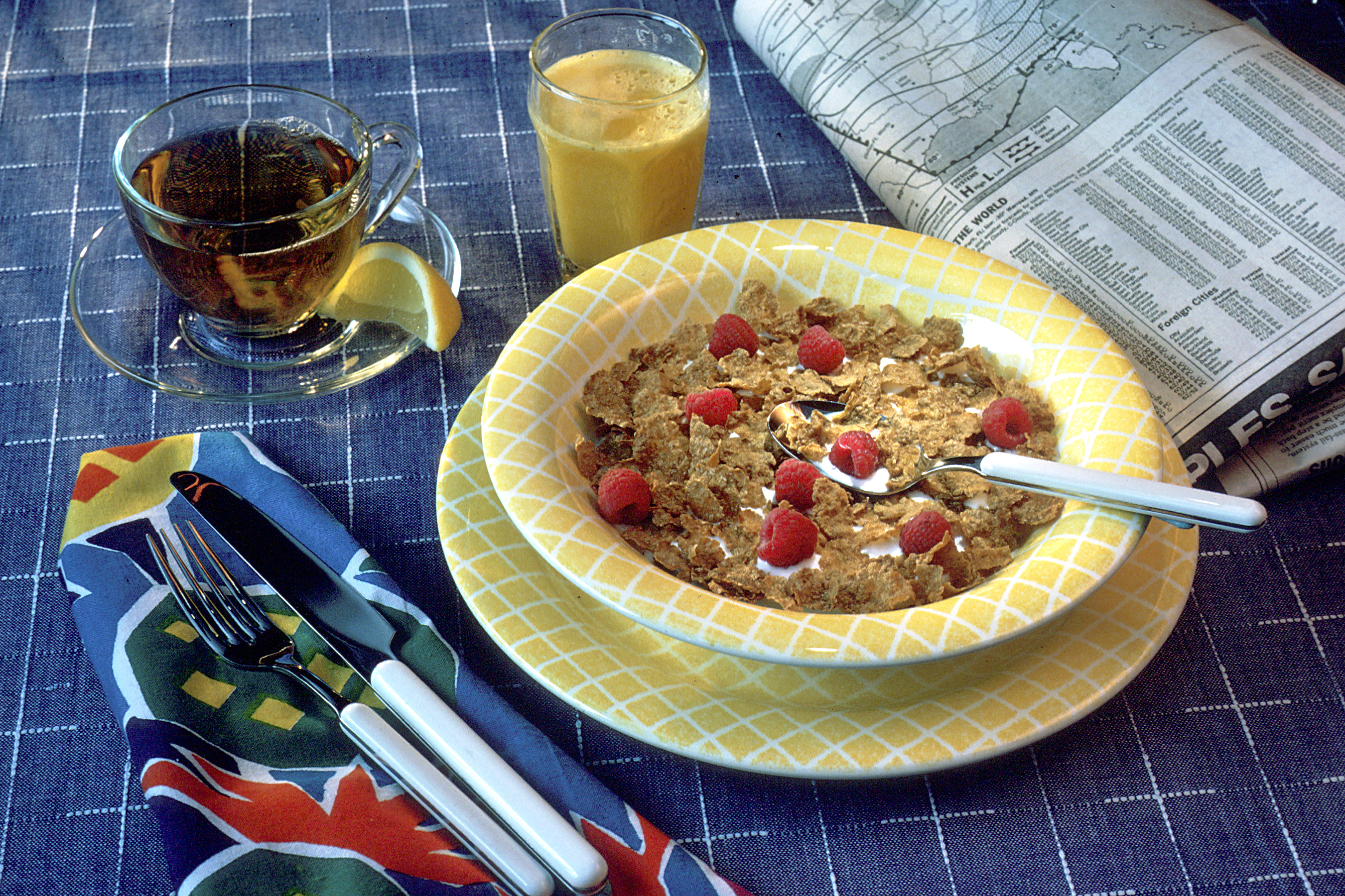 A breakfast is set up on a blue and white striped tablecloth, including: a yellow bowl of cereal with raspberries, a glass of orange juice and a glass mug of tea. Also on the table are a brightly colored napkin and silverware in the foreground and a folded newspaper in the background.